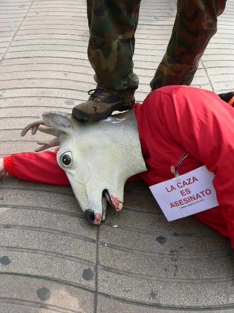 Barcelona. Demonstration against hunting.